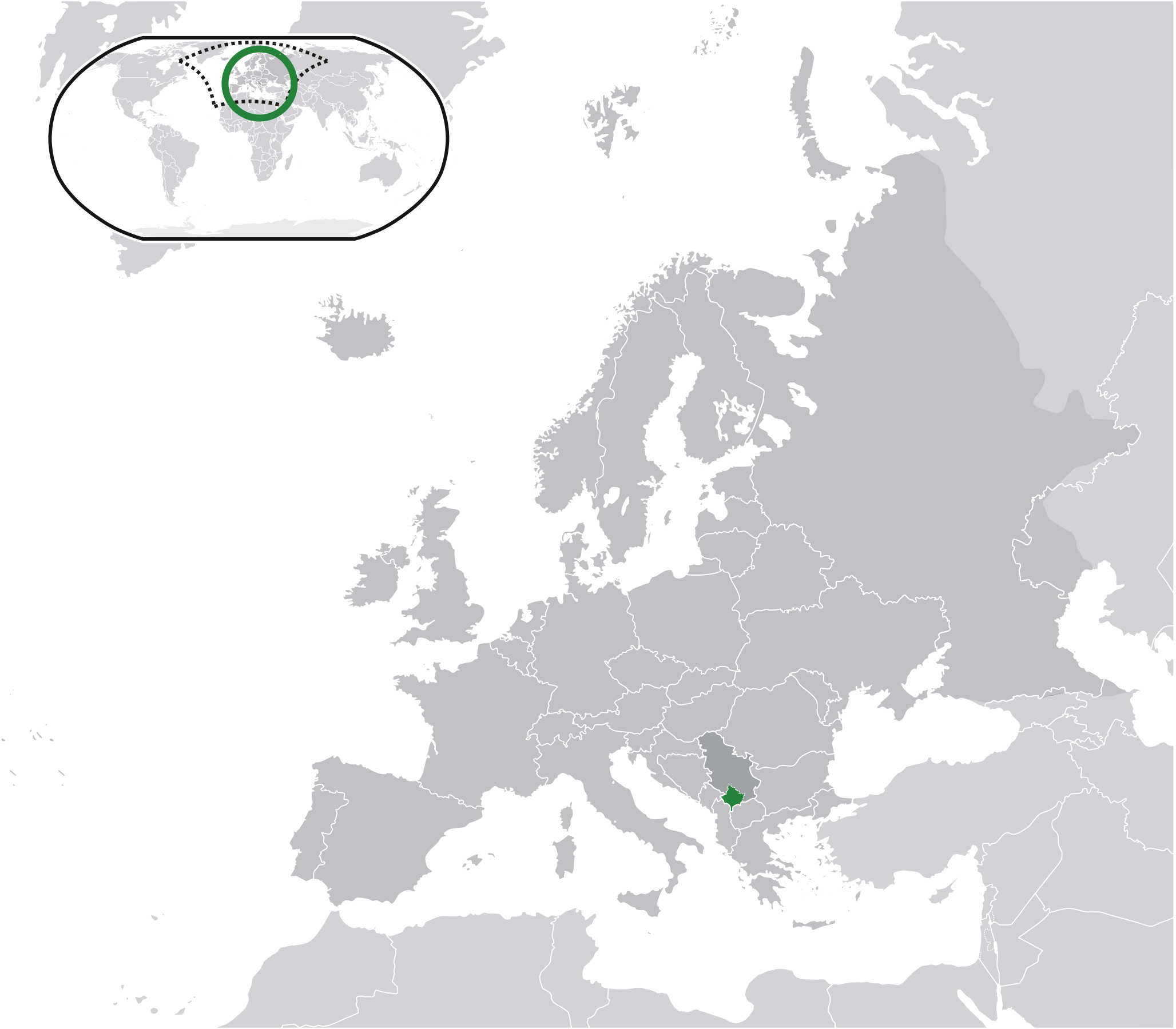 Kosovo (dark green) / Serbia (light green) / Europe (all green & dark grey); inspired by and consistent with general country locator maps by User:Vardion, et al